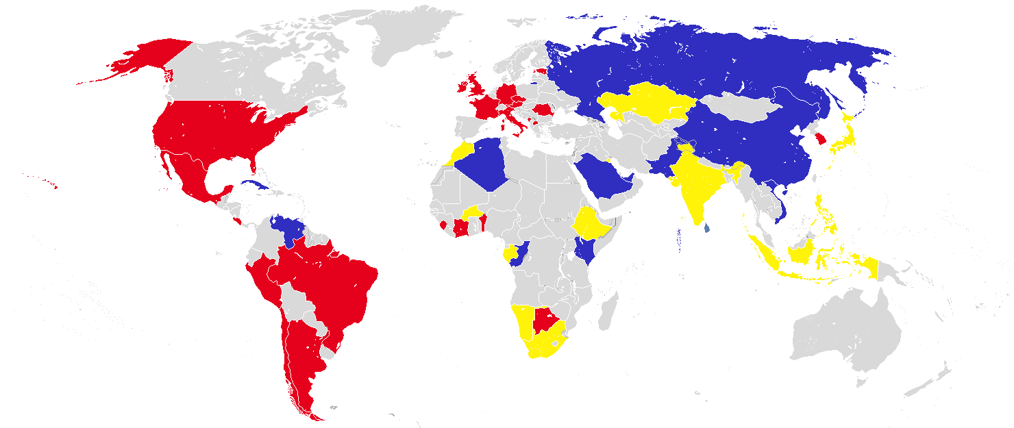 UN Human Rights Council 25th regular session 27 March 2014 vote on resolution 25/1 on reconciliation and accountability in Sri Lanka For Against Abstain Used File:BlankMap-World.png as template.